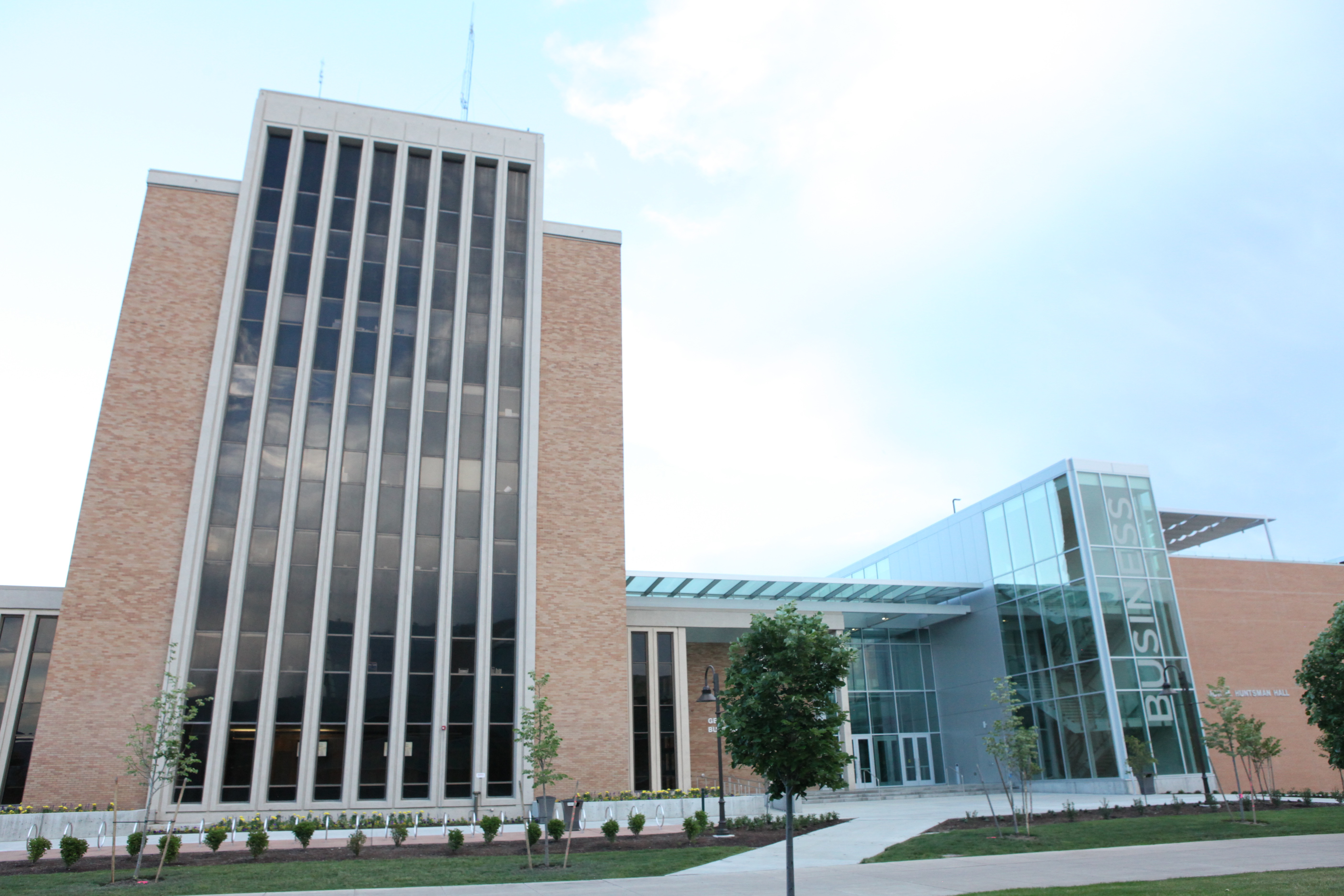 This is the north, campus facing entrances to the Jon M. Huntsman School of Business.